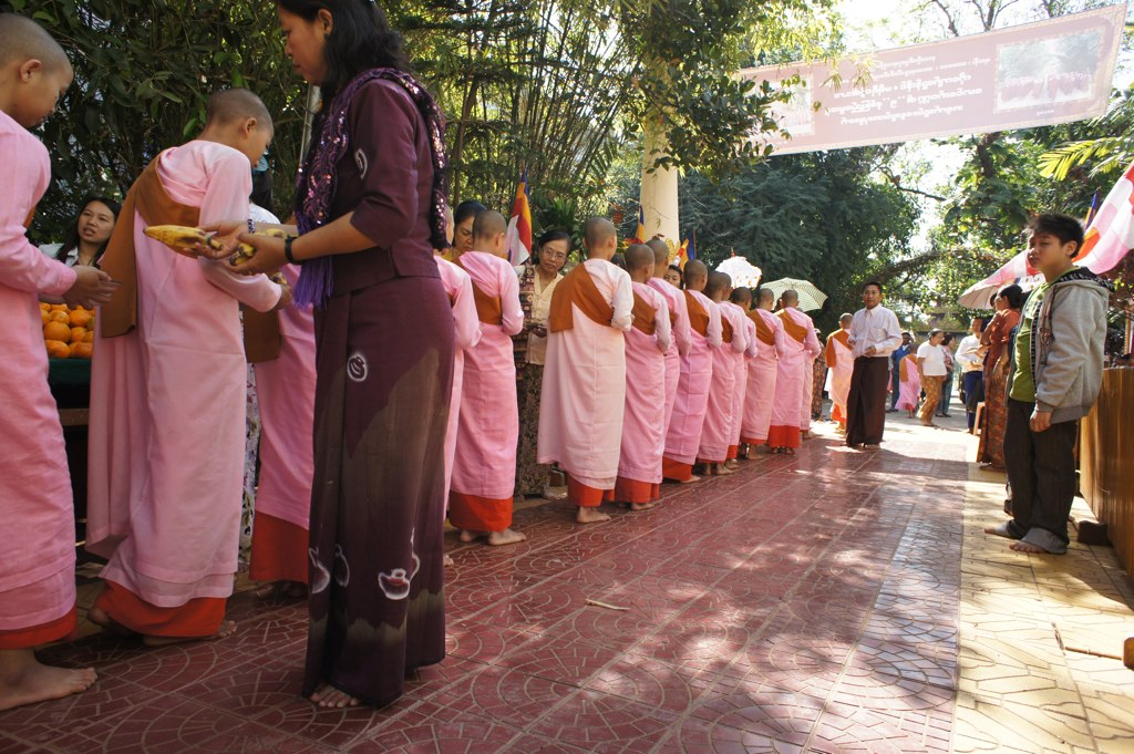 Buddhist nuns (thilashin) receiving offerings of food at lunch time in Ynagon